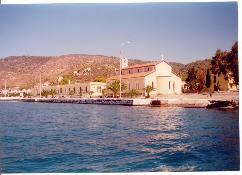 Poros naval training center